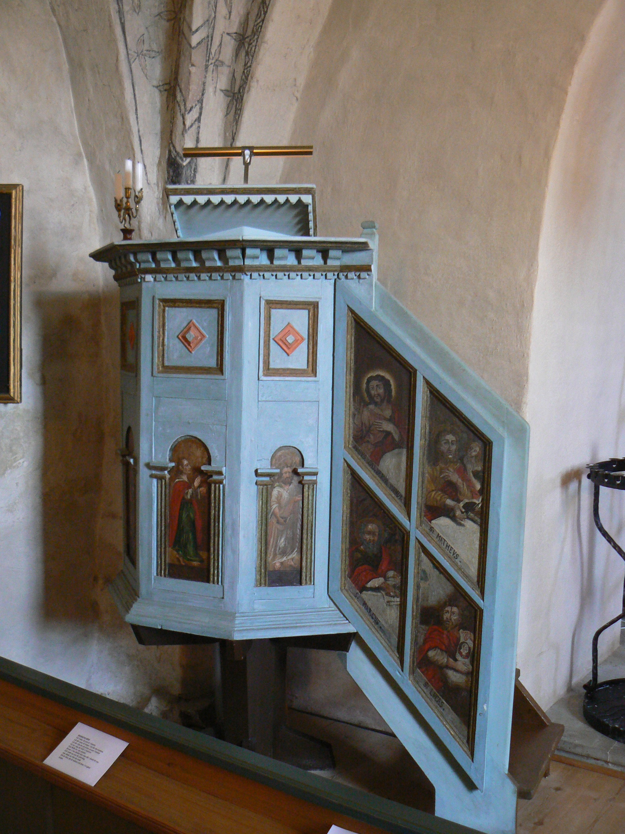 The pulpit of Lillkyrka Church in Diocese of Linköping, Sweden.